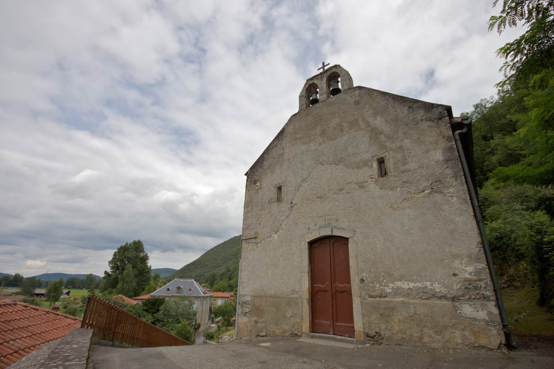 The church at Luscan, Haute-Garonne, showing the bell gable.